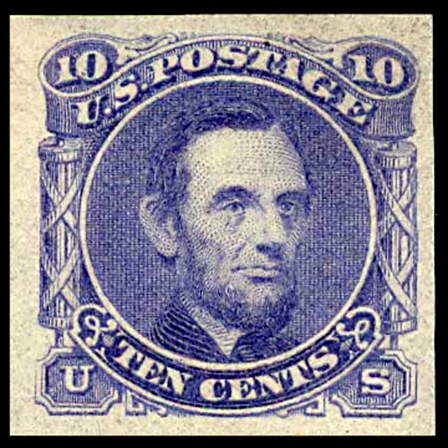 Lincoln 10-cent stamp essay, 1869